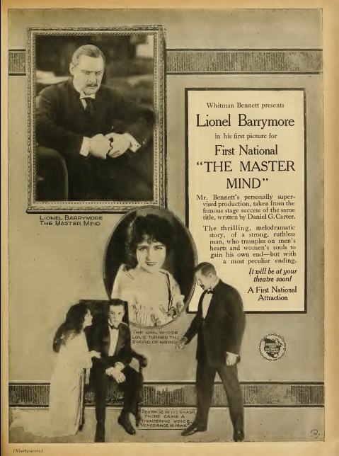 Advertisement with Lionel Barrymore in the crime drama film The Master Mind (1920), from Motion Picture Classic.